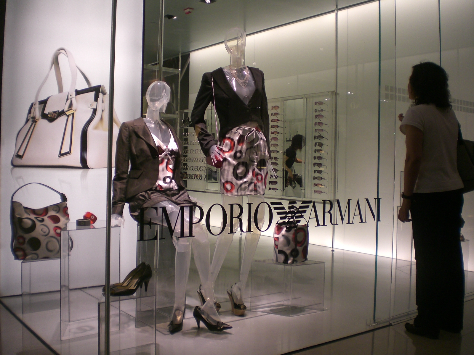 Emporio Armani, a shop in Central, Hong Kong Author= User:Chater Armani